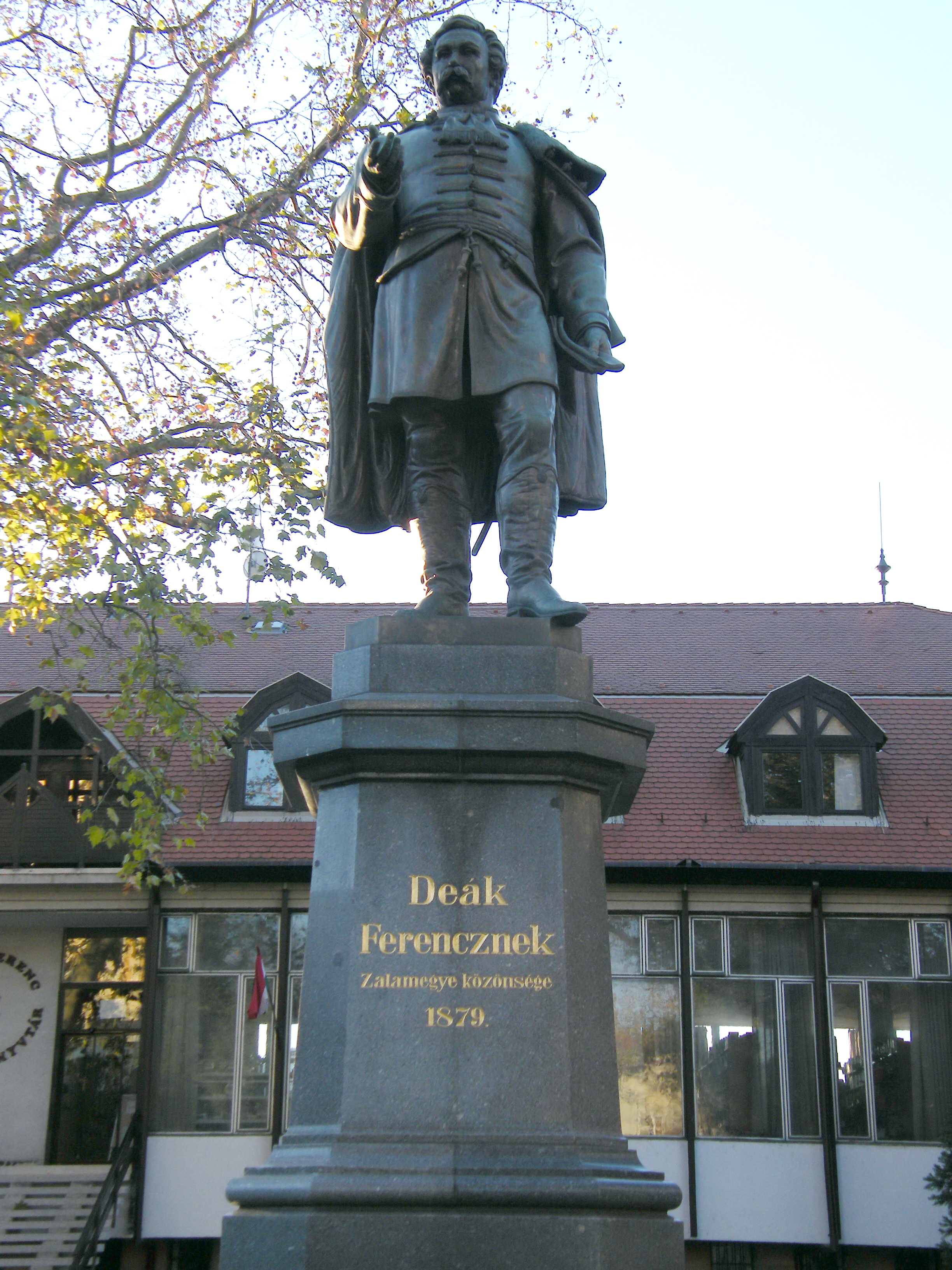 Statue of Ferenc Deák, Zalaegerszeg. It was the first statue of Ferenc Deák in Hungary. Sculptor: Miklós Vay (1828–1886) in 1879